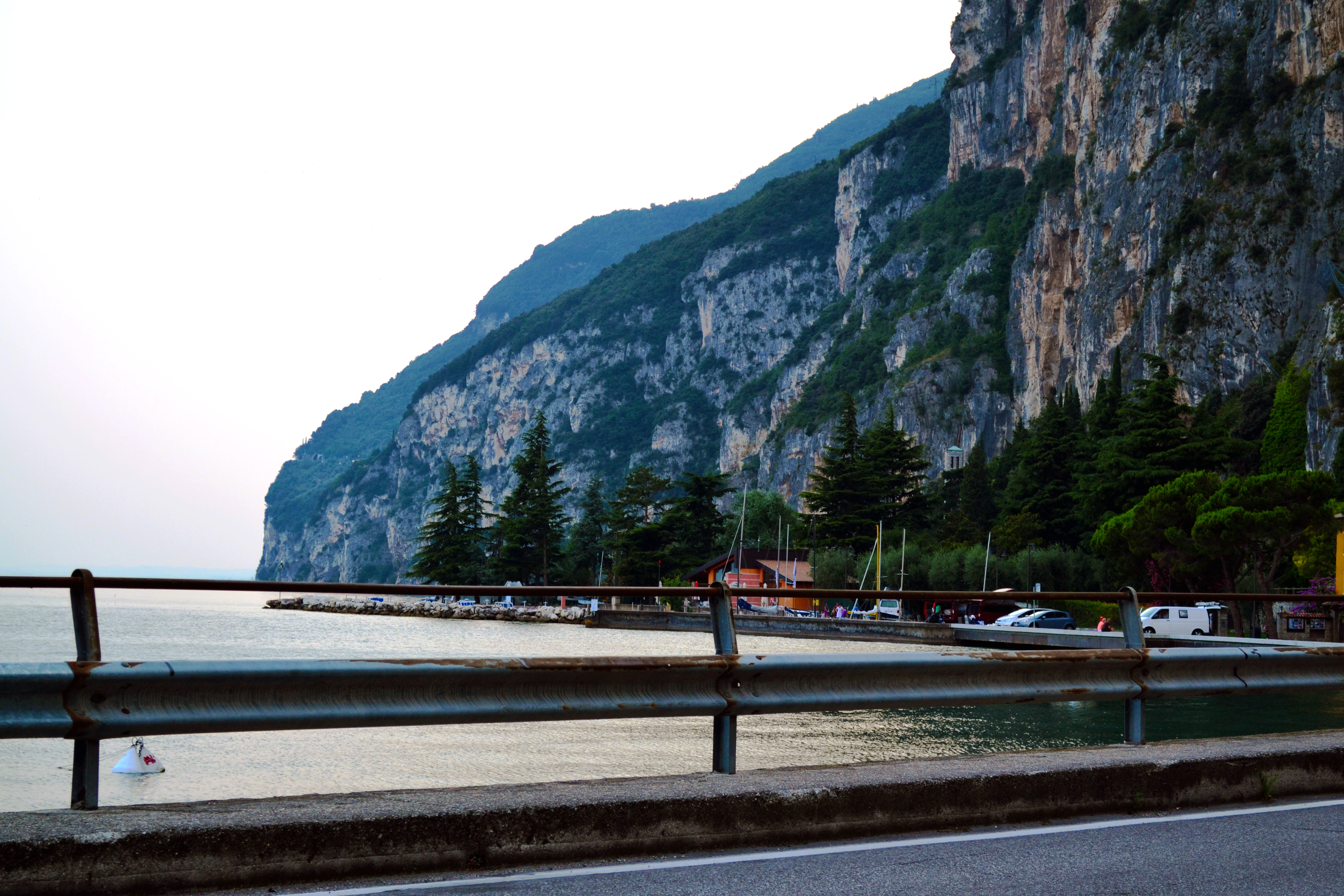 View of the Harbour of the vacation-town Tignale. Taken from the Strada Statale 45 bis Gardesana Occidentale (SS45bis)